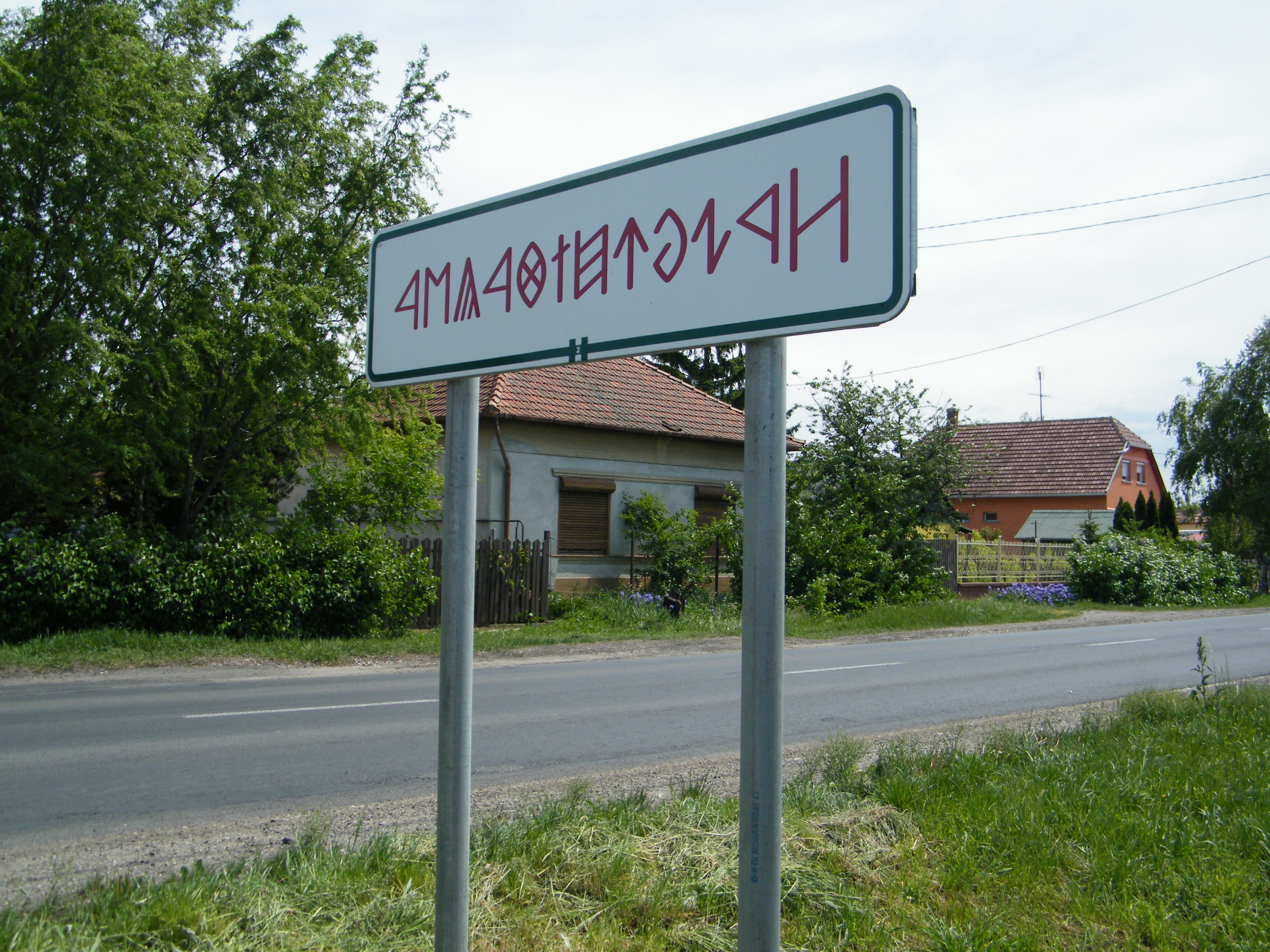 City limit table in Rakoczifalva, Hungary. Traditional hungarian letters (rovas)